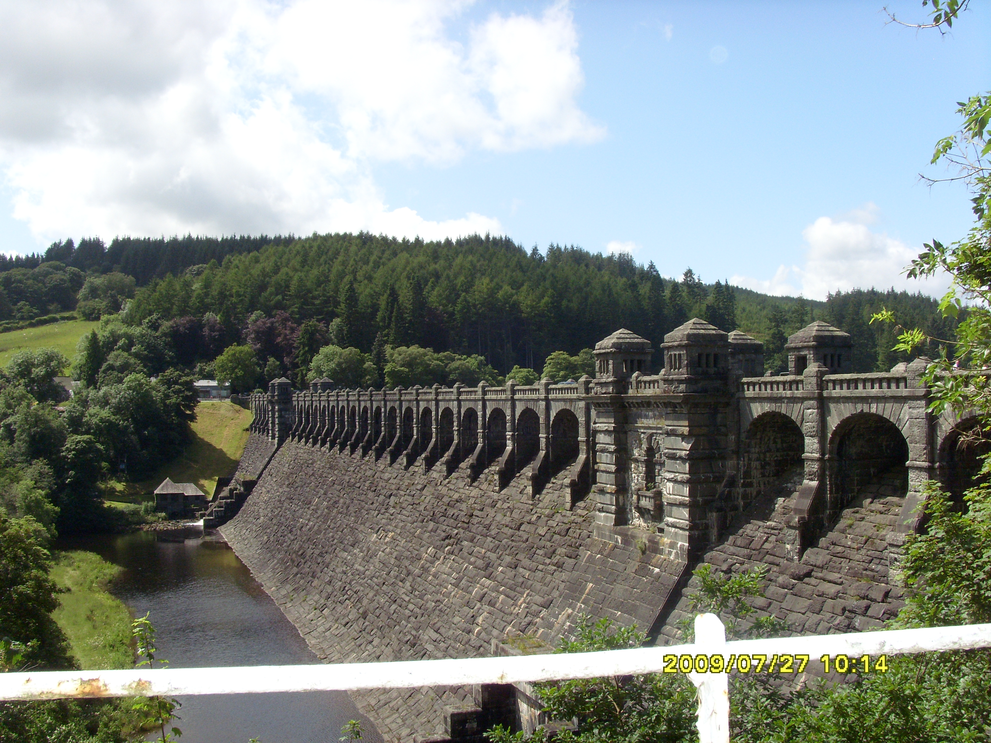 A photo taken by me of the Lake Vyrnwy Dam near Llanfechain, Powys, Wales